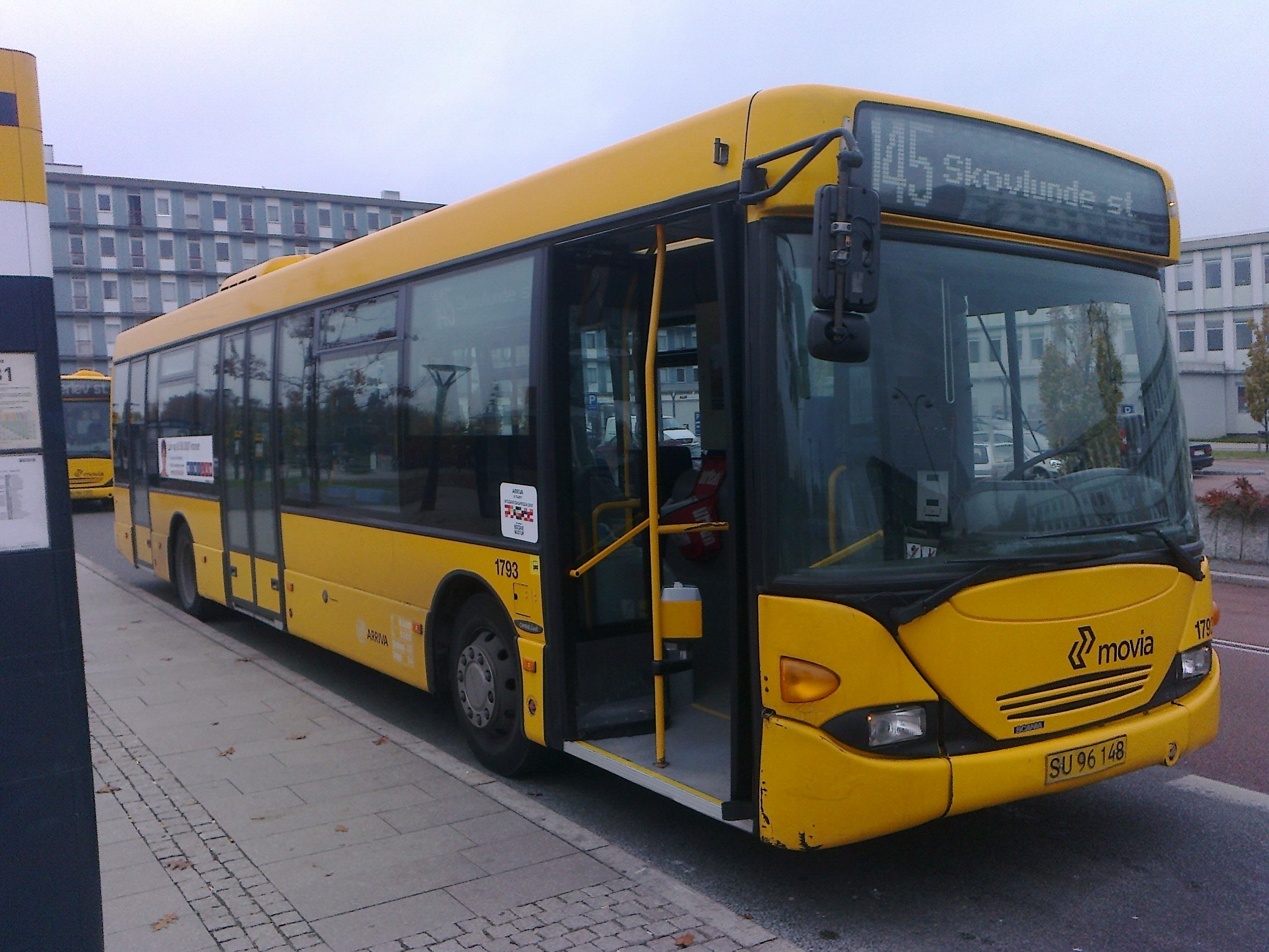 Arriva Scania OmniLink bus as Movia route 145 towards Skovlunde station. Photographed at Herlev station.